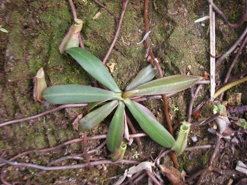 Nepenthes albomarginata